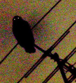 A Powerful Owl perching on a suburban television aerial in Chatswood West, New South Wales, Australia. Species identified by the photographer by the owls huge size and its call. Photograph taken using flash photography and a tripod at about 23.20 pm at night.